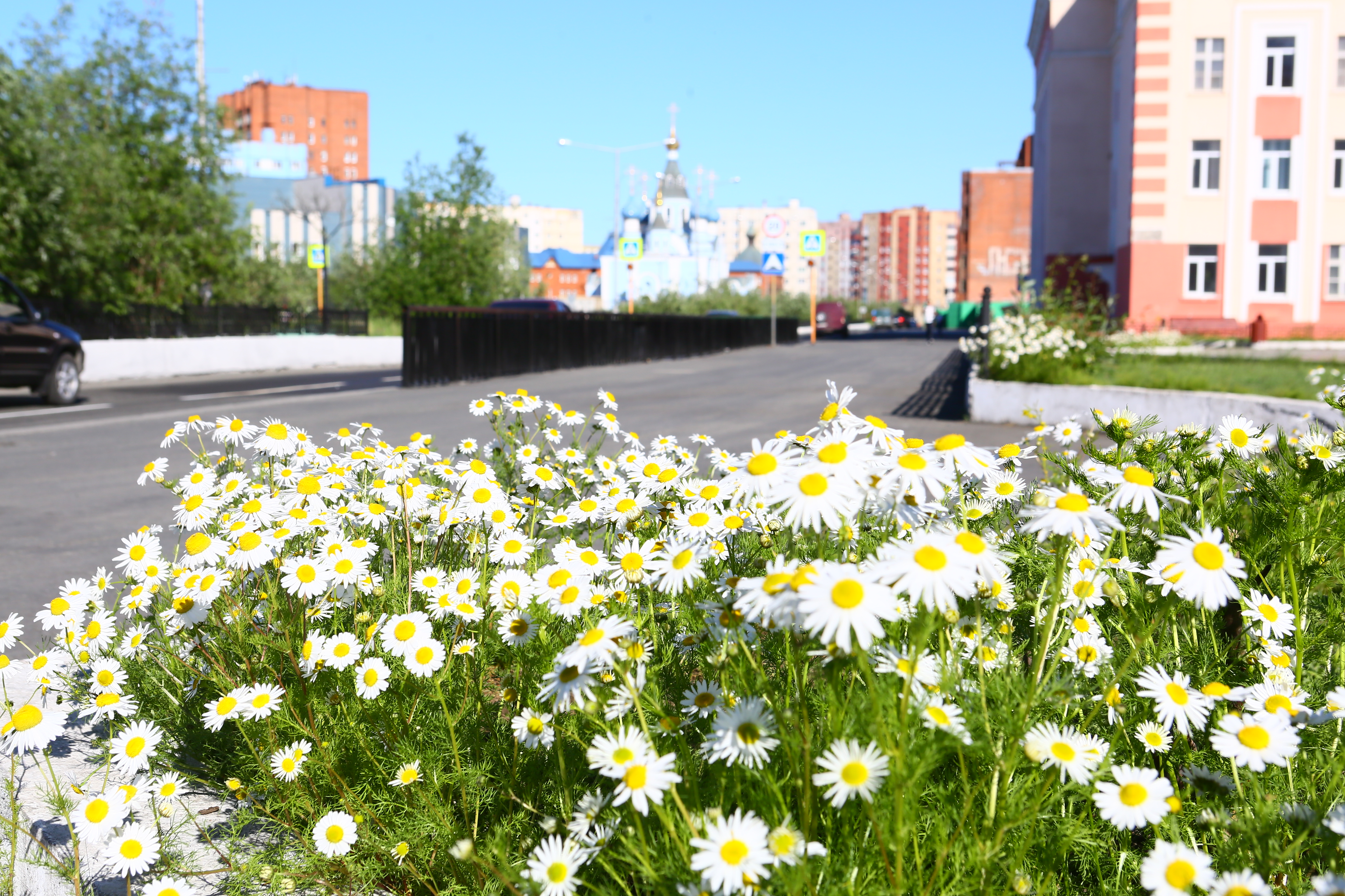 Daisies on the flower bed in Pushkin garden square in Norilsk. In the background, from left to right: «Zapolyarnik» stadium; Norilsk Diocese Cathedral «Joy of All Who Sorrow»; Gymnasium #4.